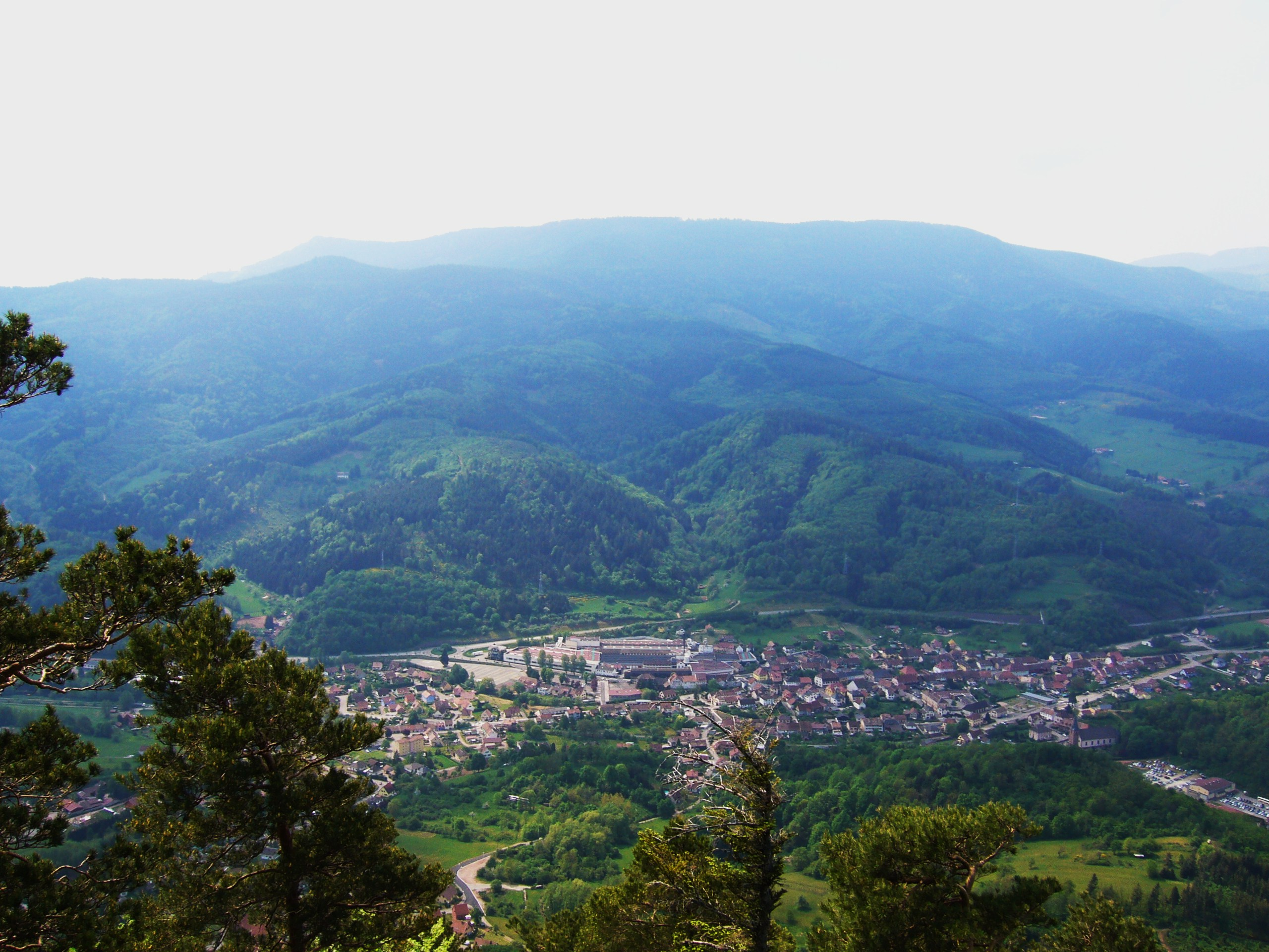 Chalmont 096.JPG